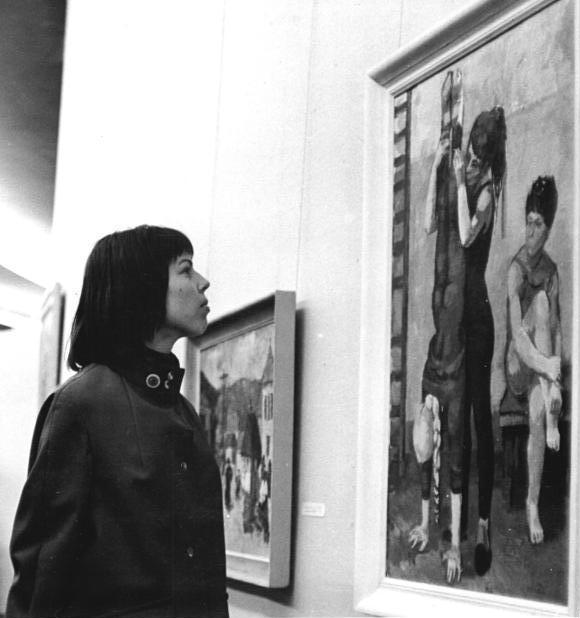 German poet Sarah Kirsch